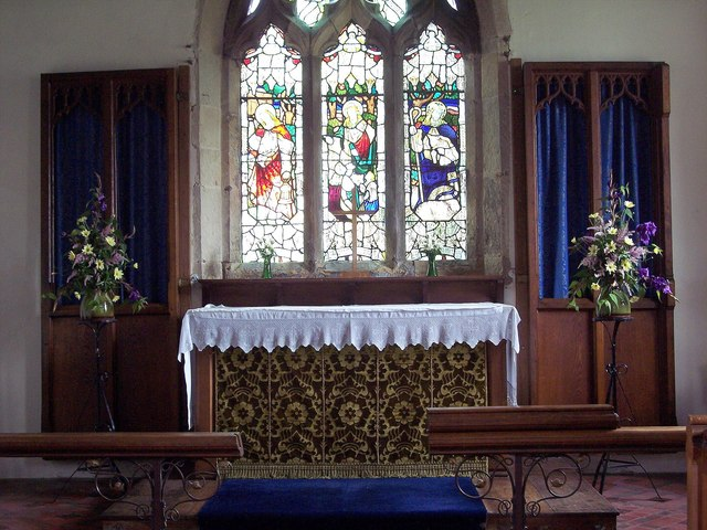 St John's Church, Allerston - Interior